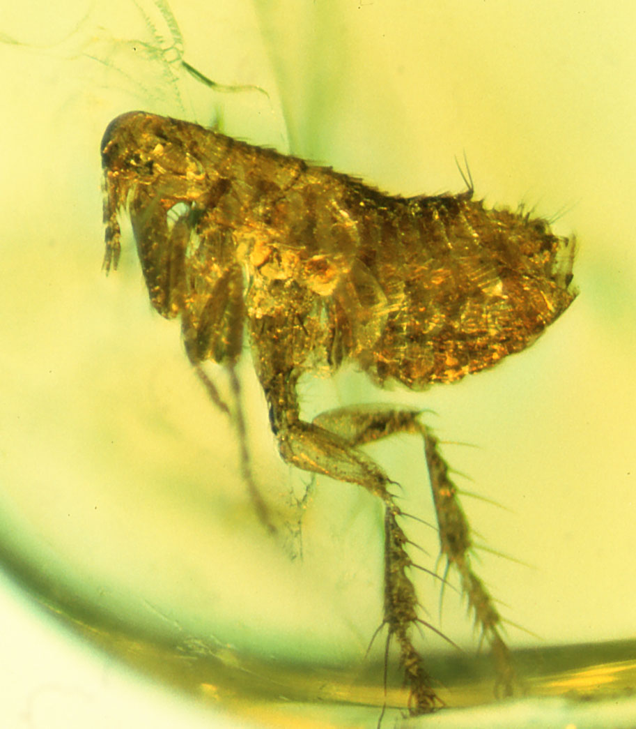 This flea preserved about 20 million years ago in amber may carry evidence of an ancestral strain of the bubonic plague. (Photo by George Poinar, Jr., courtesy of Oregon State University)